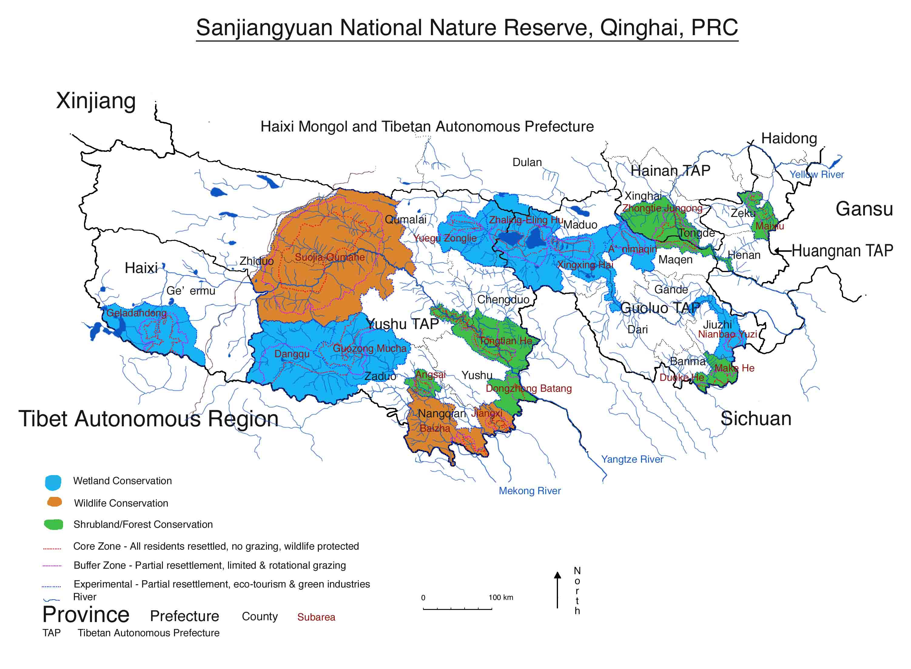 Sanjiangyuan National Nature Reserve, Qinghai,PRC.